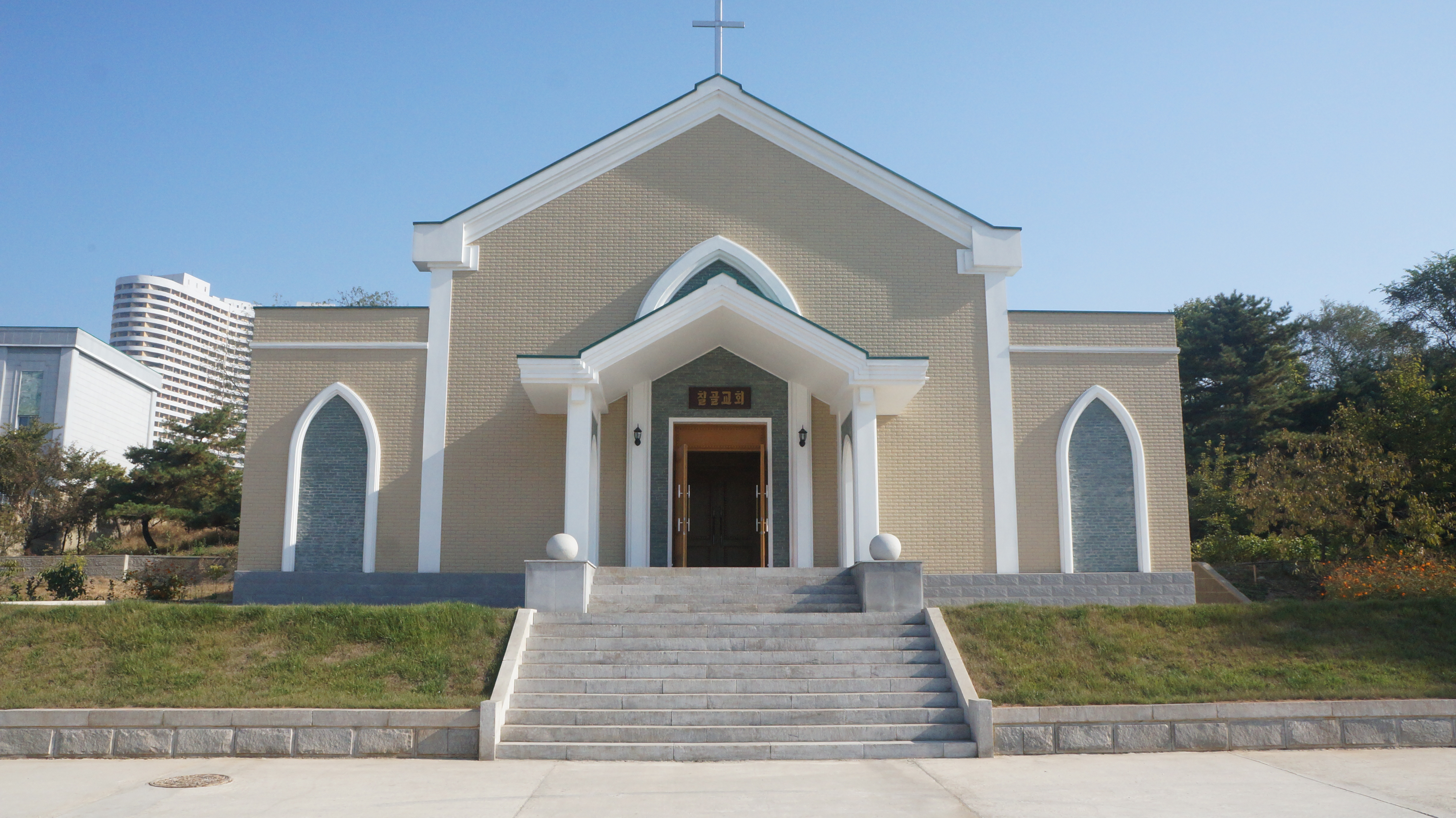 North Korea DPRK